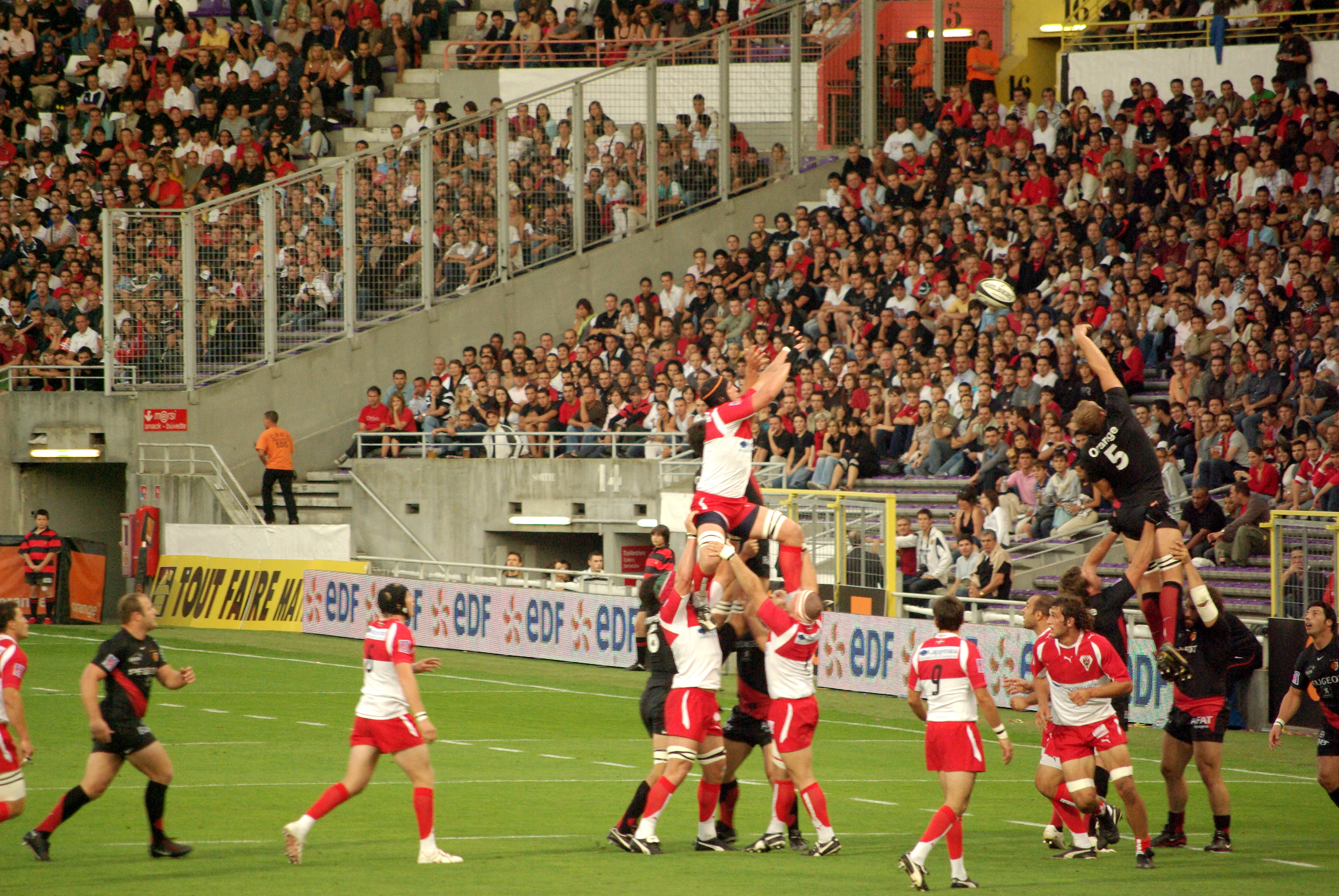 Line out. Picture from the rugby game Stade toulousain vs Biarritz olympique which took place in Stadium de Toulouse, Toulouse, 07/09/2008.